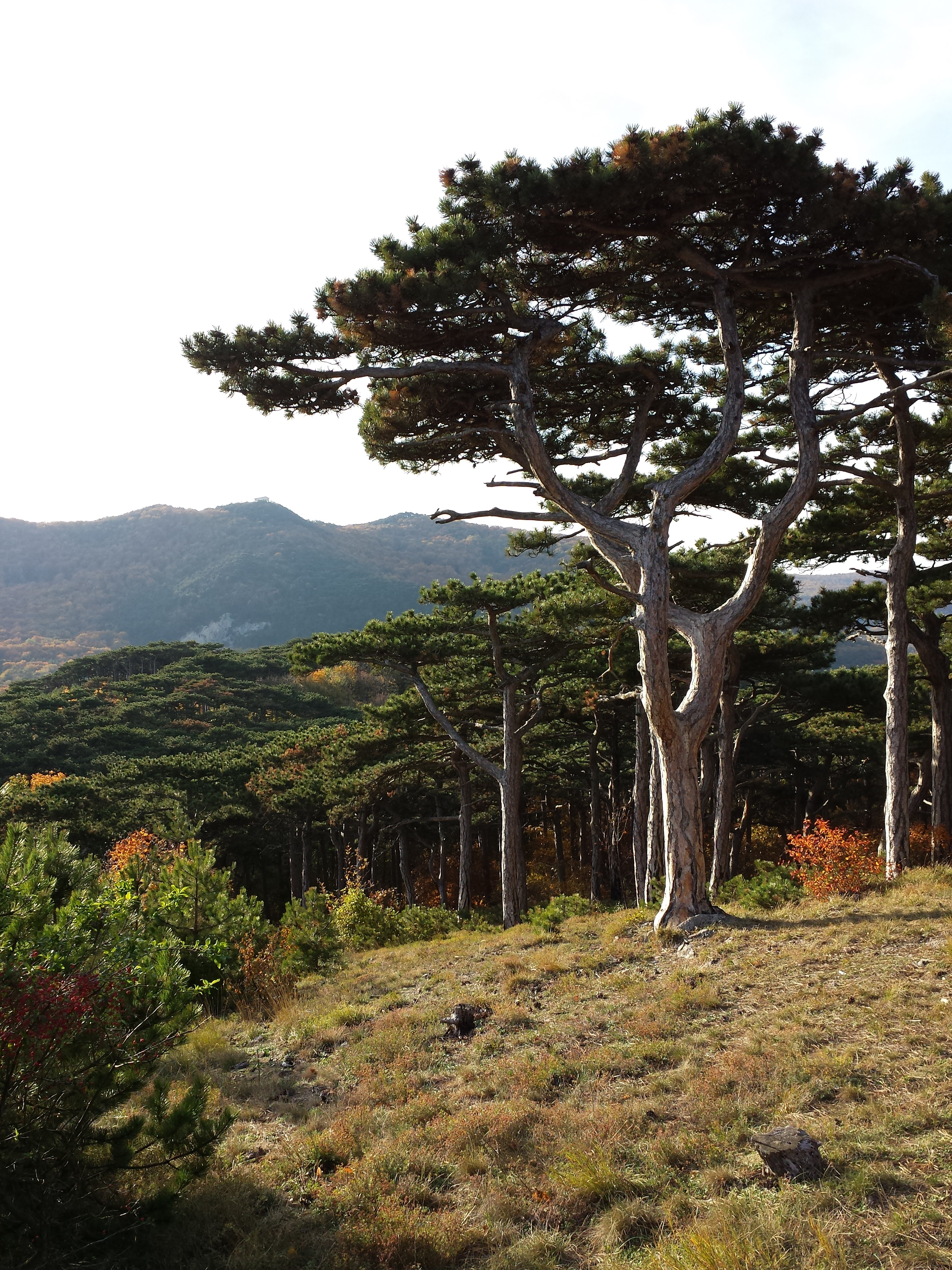 Habitus Taxon: Pinus nigra (subsp. nigra) (sensu Fischer et al. EfÖLS 2008) Location: view from Frauenstein near Mödling to Husarentempel, district Mödling, Lower Austria - ca. 350 m a.s.l. Habitat: pine wood